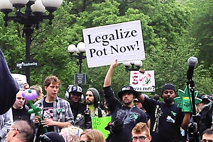 Legalize Pot Rally Union Square 2012 Shankbone 2